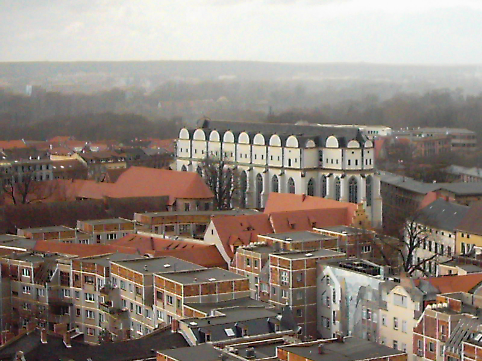 Halle Minster